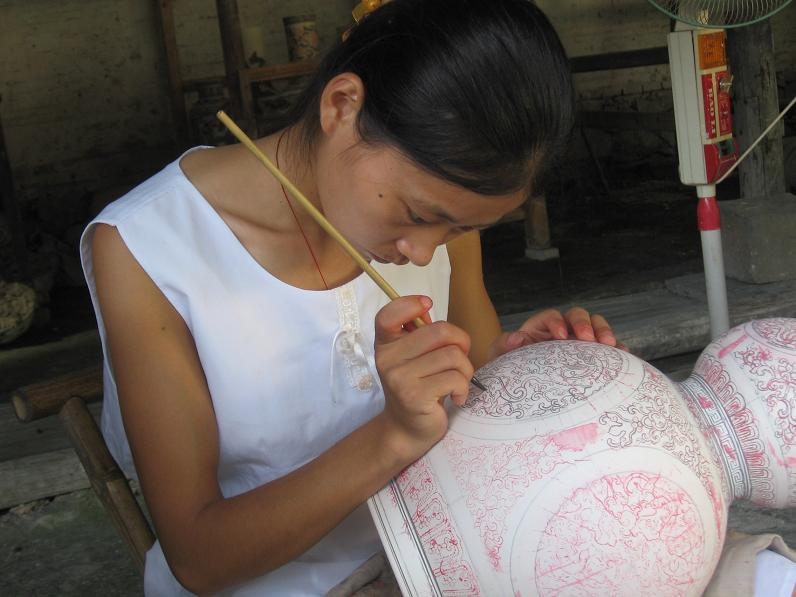 Traditional style porcelain production in Jingdezhen city, Jiangxi province, China. Photo taken by Ariel Steiner.